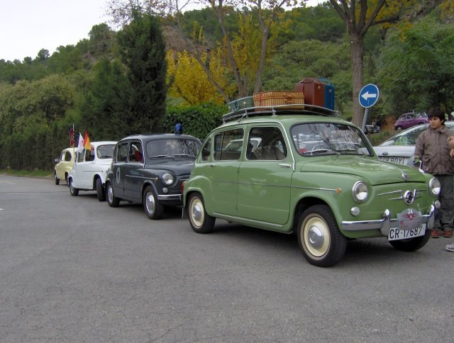 Seat 800 in Murcia